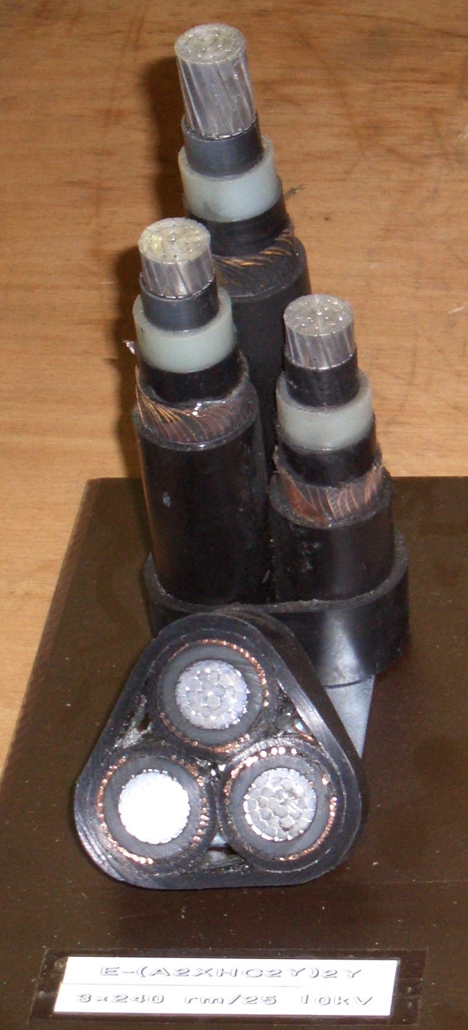 High voltage cable 10kV for three-phase